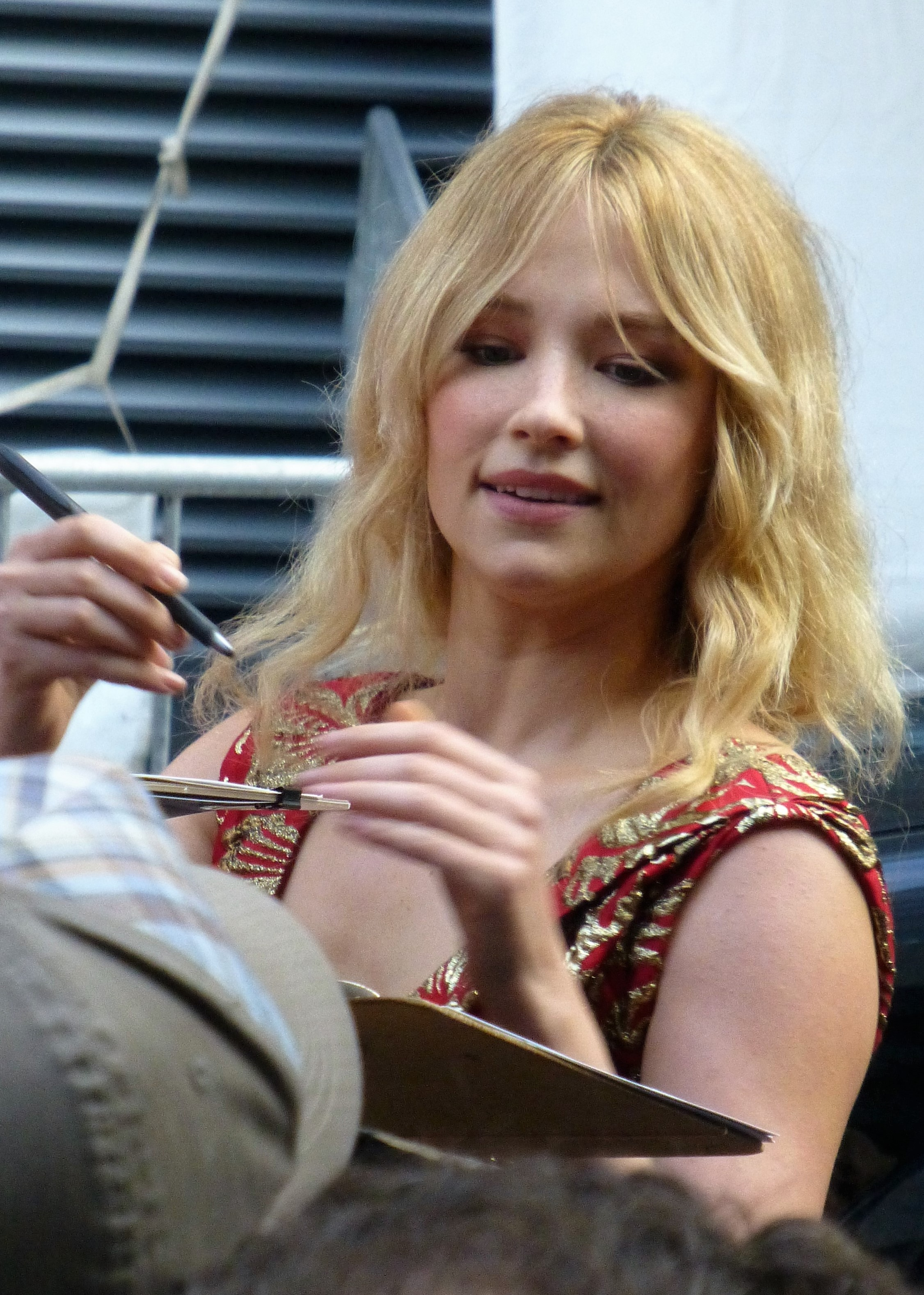 Haley Bennett at the press conference of The Magnificent Seven, 2016 Toronto Film Festival